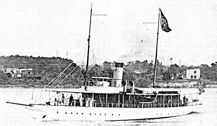 USS Sylph (PY-12), steaming down the Patomac River. The Washington skyline can be seen in the background. U.S. Navy photo 80-G-1017145